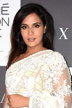 Richa Chadda on Day 5 of Lakme Fashion Week 2017